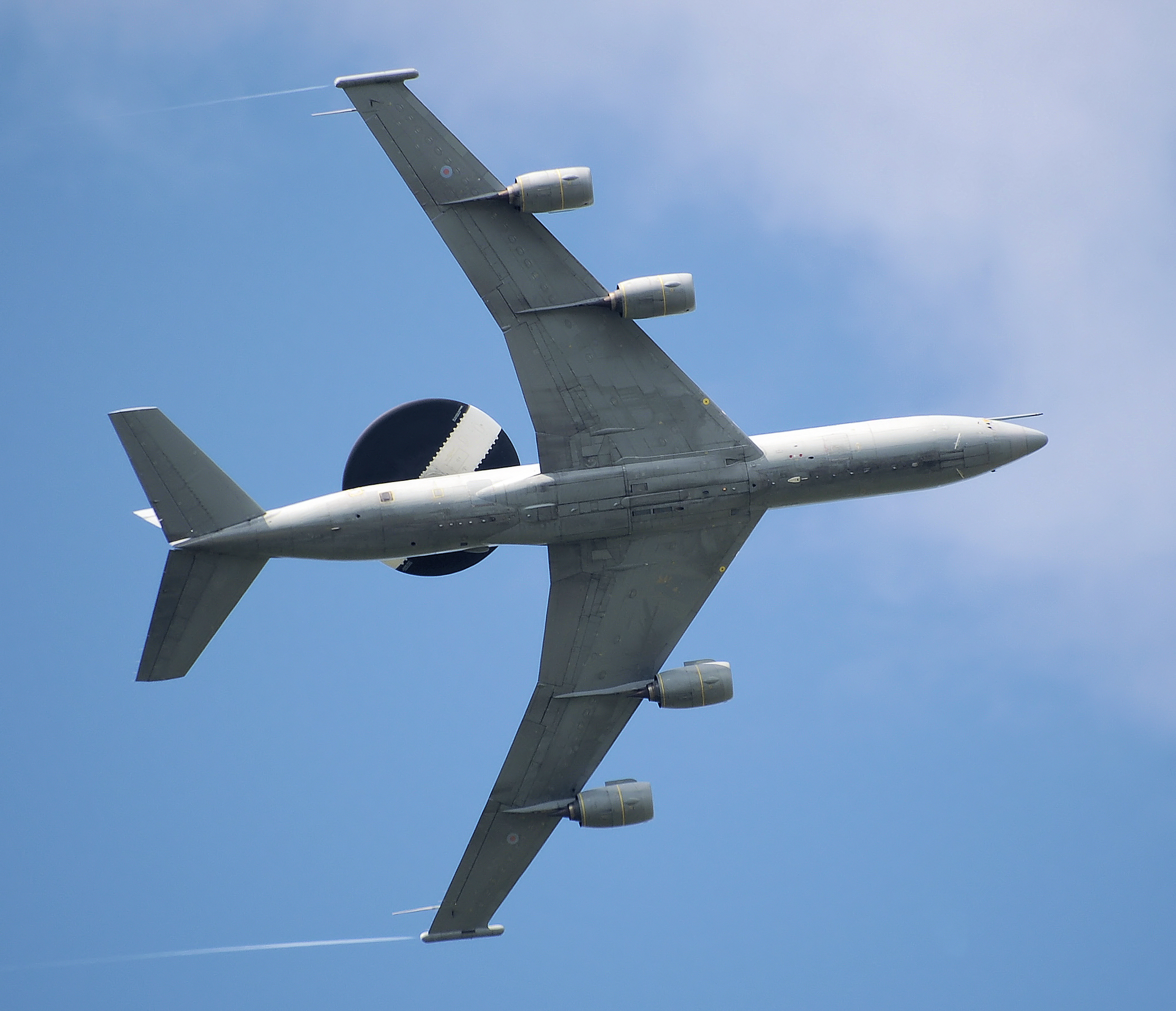 RAF Boeing E-3D Sentry AEW1 (registration ZH101) during the RAF Role Demonstration at Kemble Air Day 2008, Kemble Airport, Gloucestershire, England. This aircraft is a heavily modified Boeing 707 airliner. Photographed by Adrian Pingstone in June 2008 and placed in the public domain.